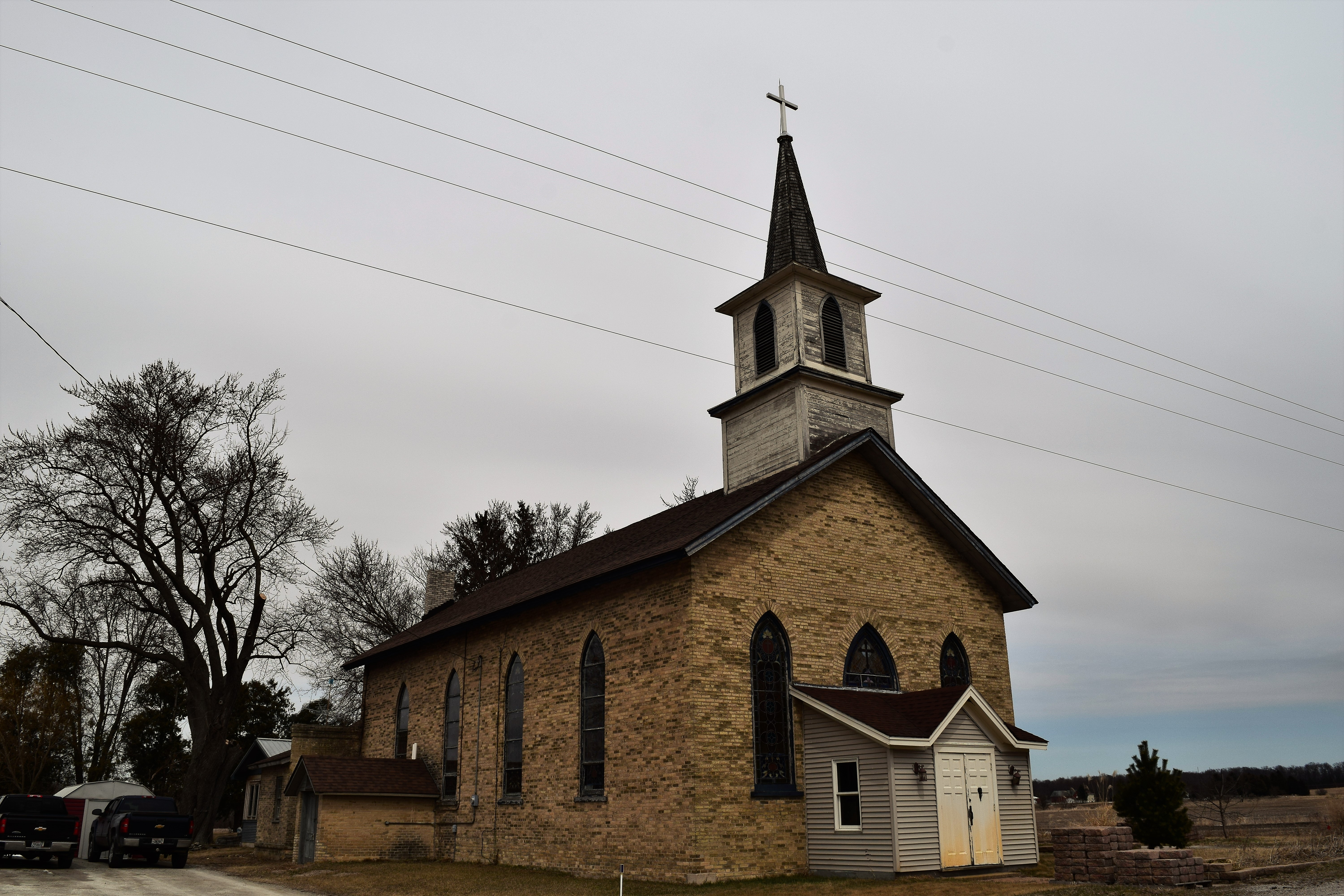 St. Joseph's Roman Catholic Church, located along County Highway Q in the town of Shields, Wisconsin. The church is listed on the National Register of Historic Places.